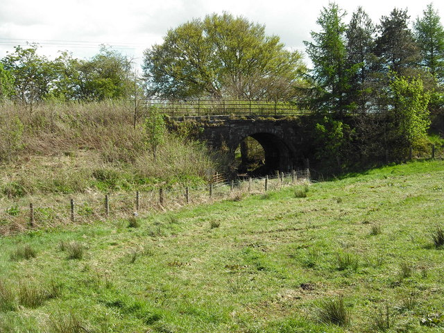 Old railway bridge Former Morningside (Newmains) to Bathgate line.